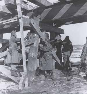 US combat engineers demolish a bridge near P'yongyang to slow the Communist advance.